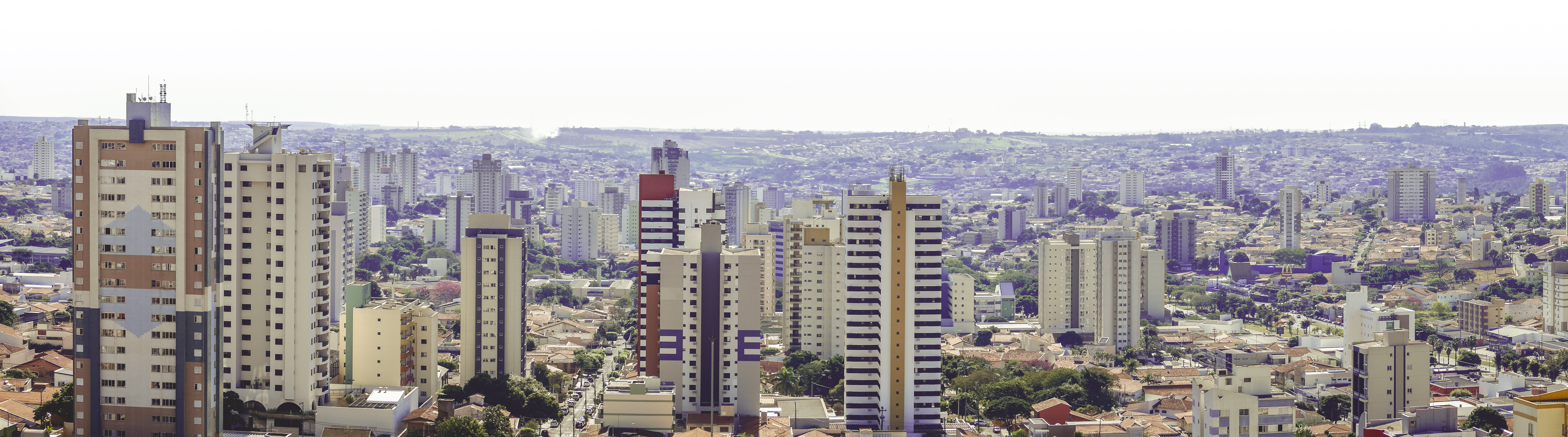 Foto panorâmica da vista da cidade de Bauru